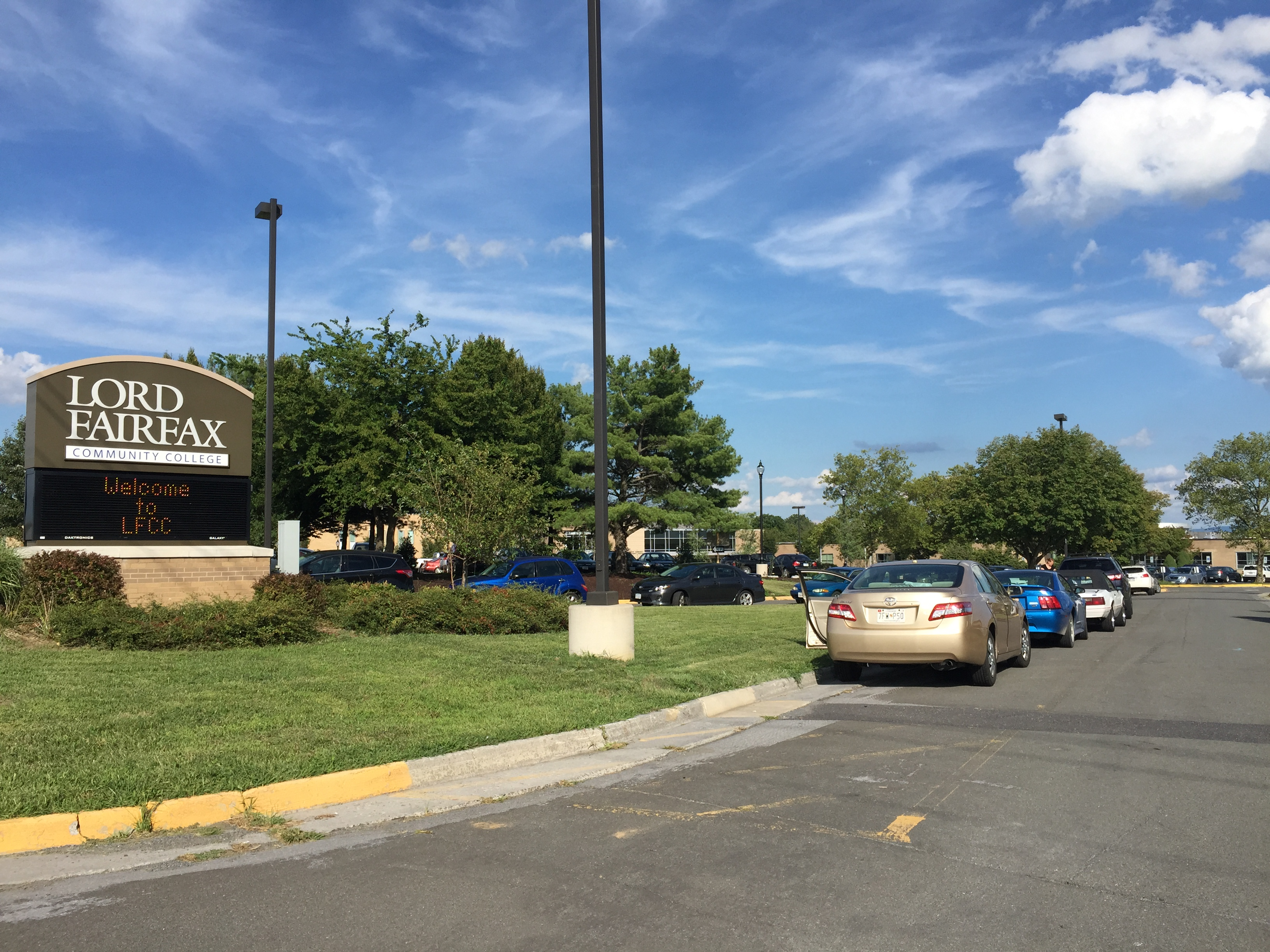 View east along Virginia State Route 377 (Lord Fairfax Community College Access Road) at U.S. Route 11 (Valley Pike) just north of Middletown in Frederick County, Virginia